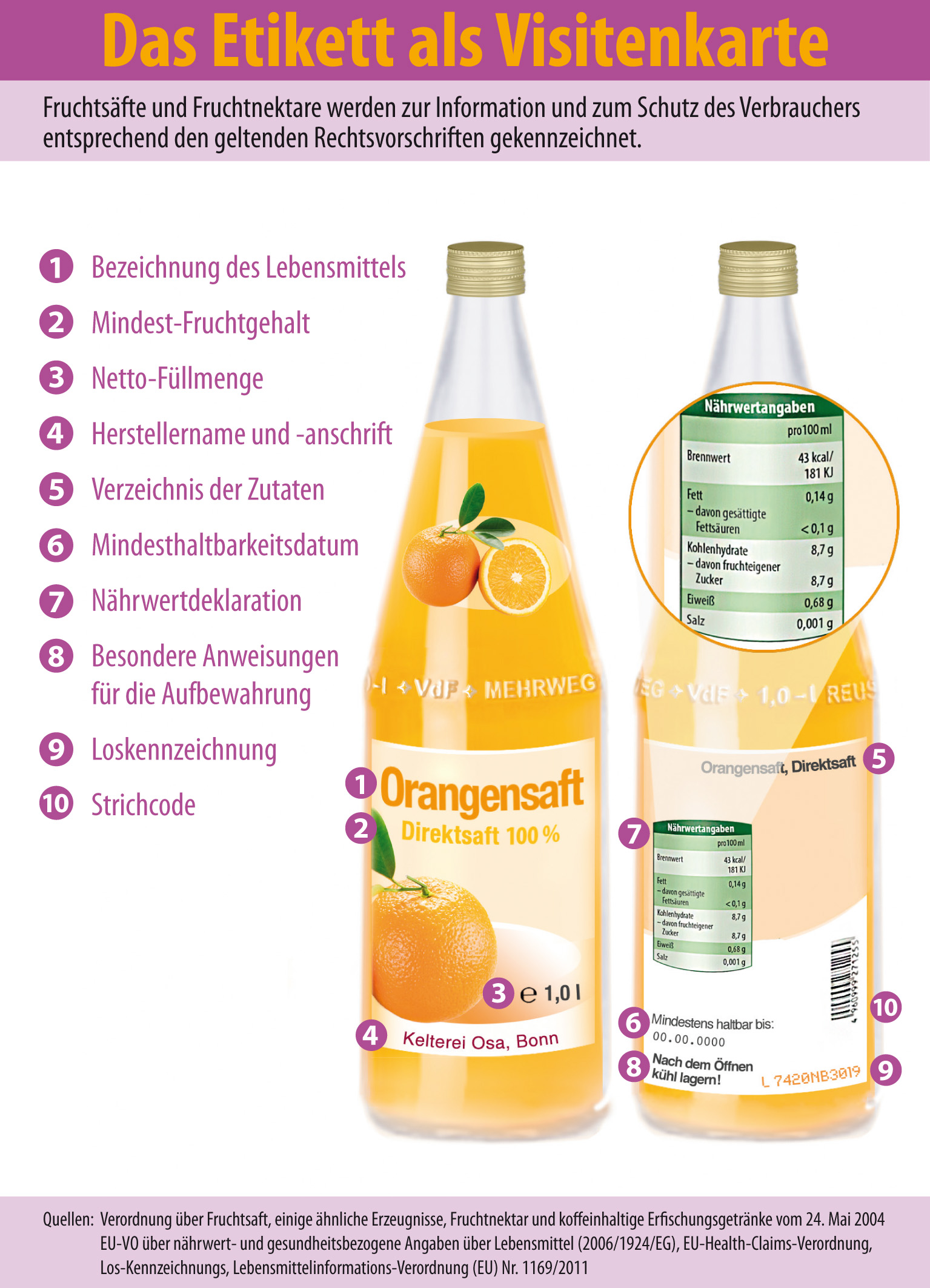 Schematic representation of the labeling of fruit juice